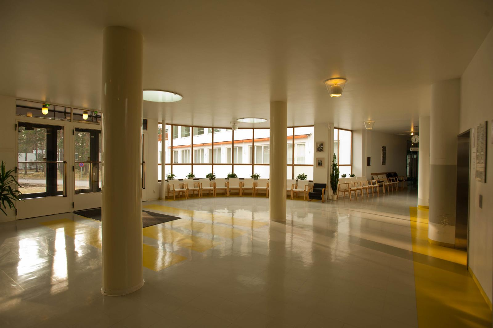 Interior ofPaimio Sanatorium by Alvar Aalto in Finland